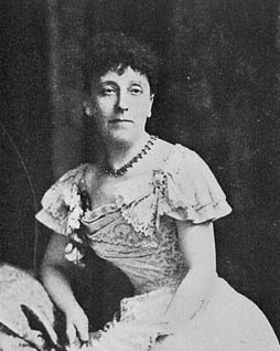 Picture of Émilie Lavergne, née Émilie Barthe.